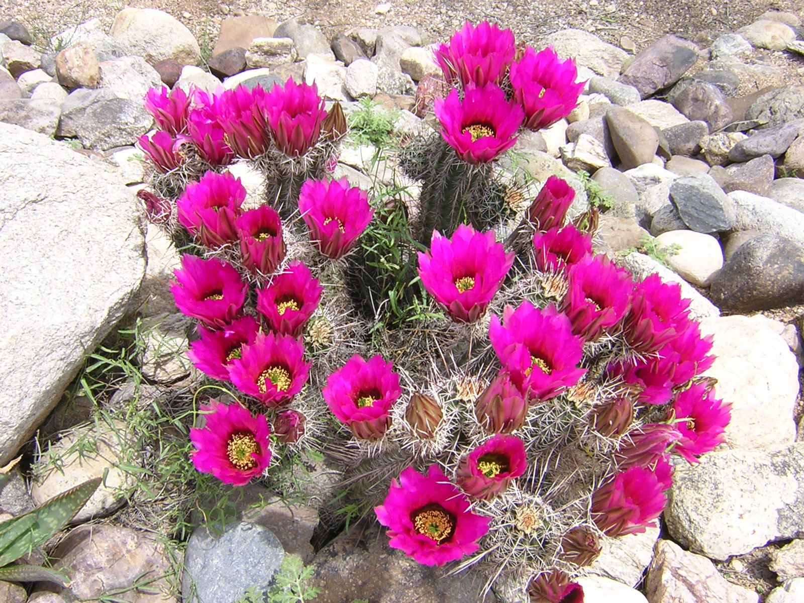 This astonishing Arizona Strawberry Hedgehog Cactus (Echinocereus engelmannii) blooms only a few days each year. The mid-day sun illuminates its exuberant flowers.